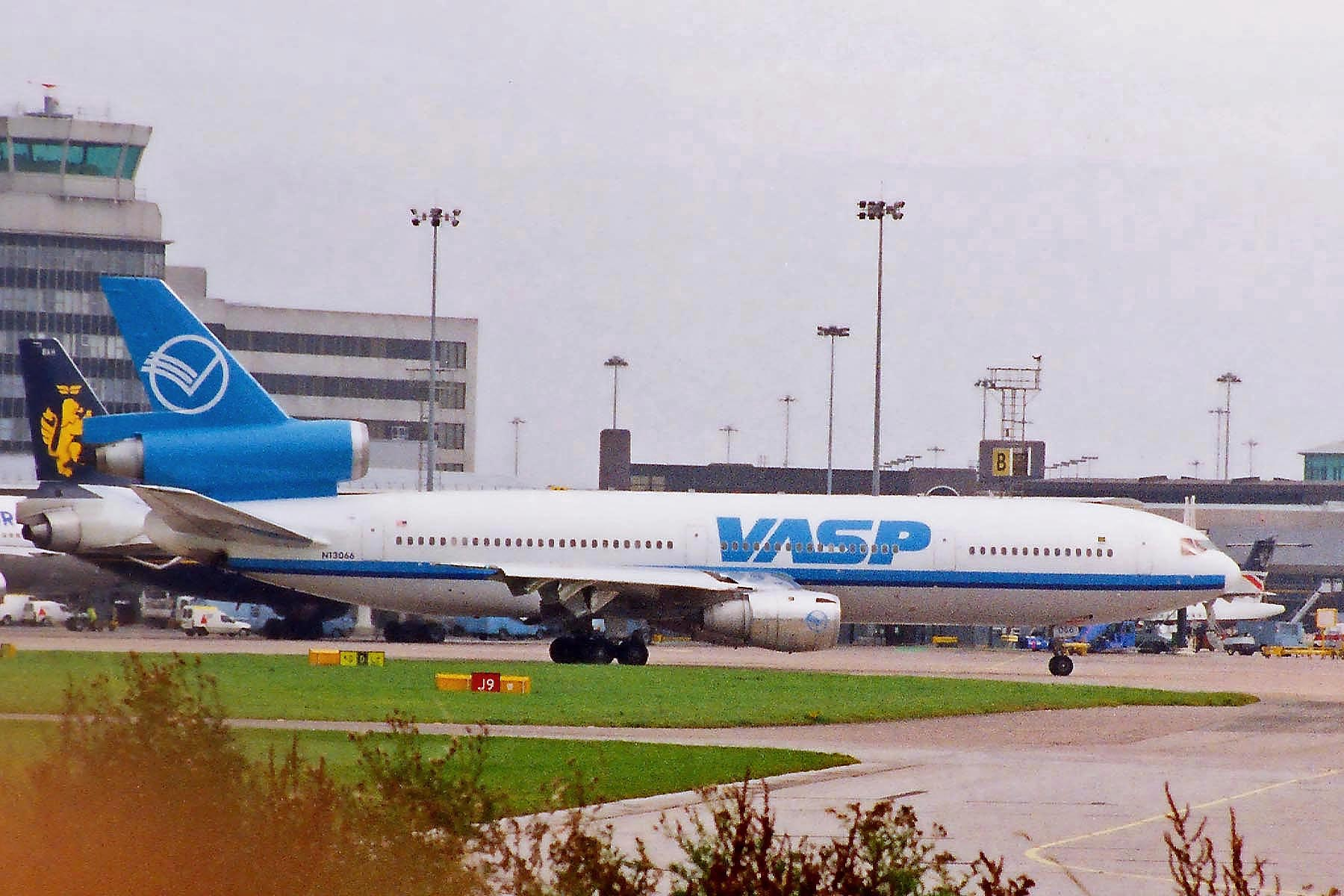 Continental Airlines aircraft in dual c/scheme. Full Continental c/scheme on the left-hand-side.